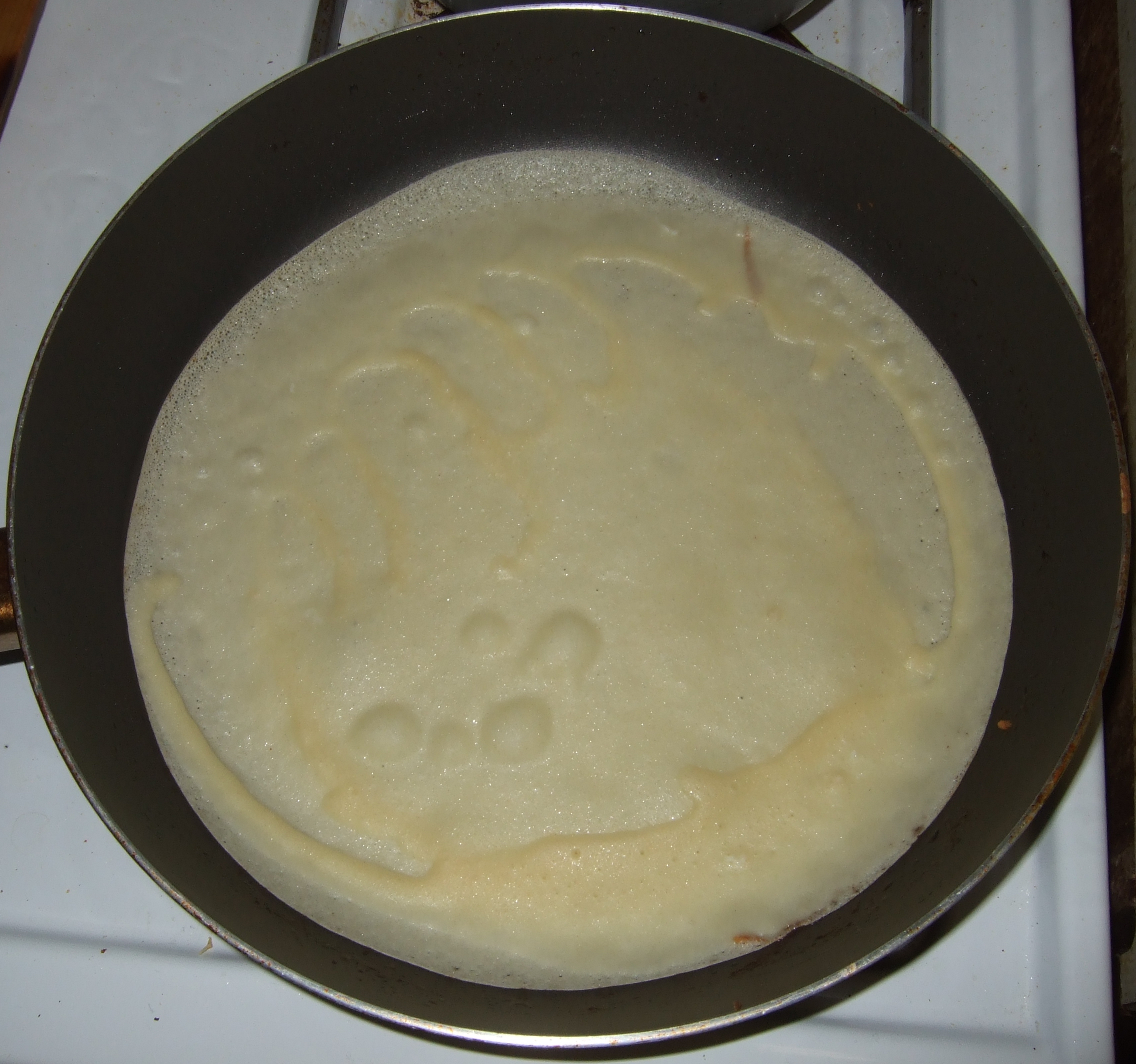 A crêpes being cooked